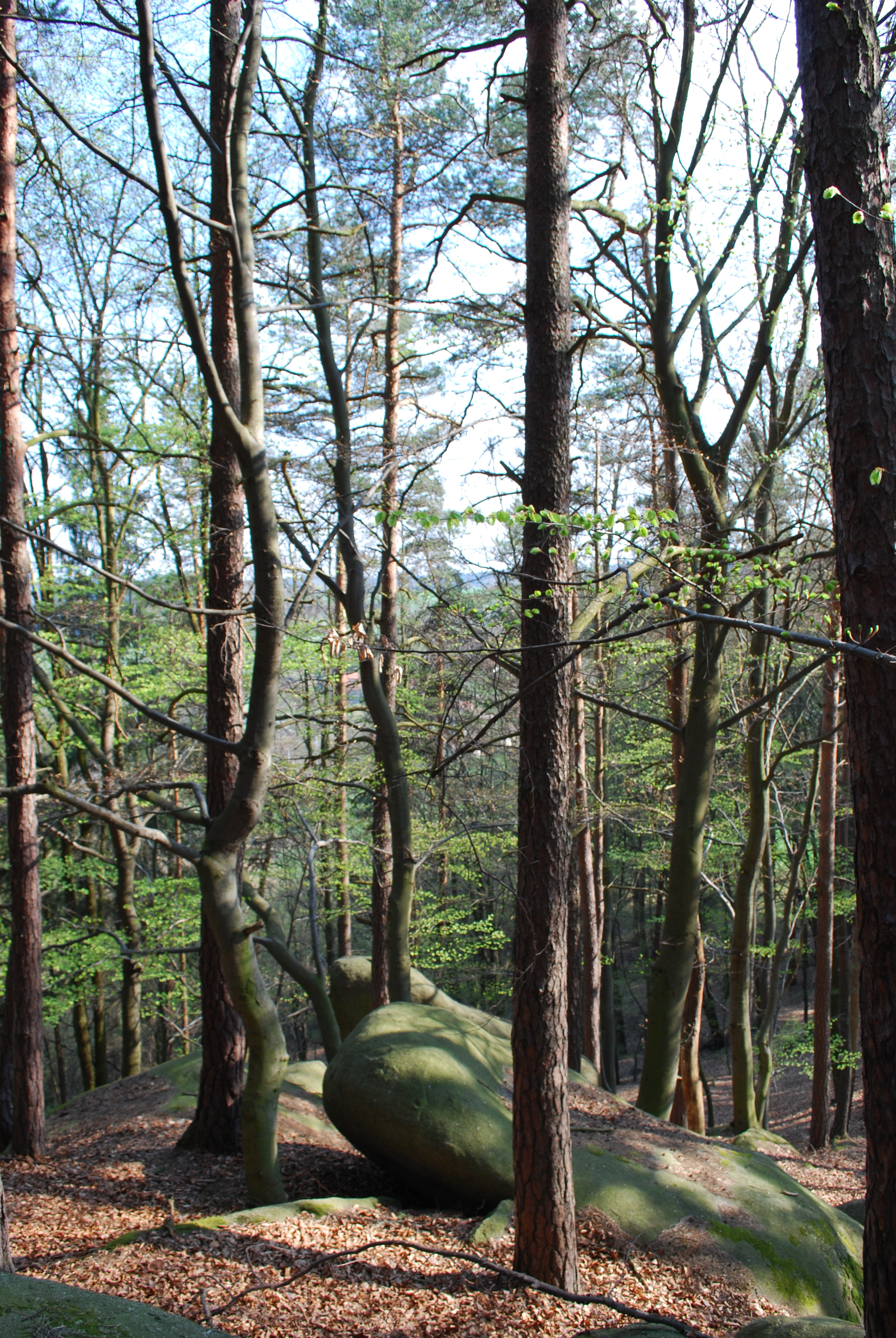 Natural monument Kněz u Hrazan near Hrazany village in Písek District, Czech Republic. - Google Maps - Google Earth